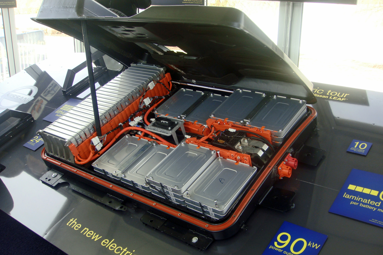 Nissan Leaf battery pack, Leaf Drive ElectricTour Washington DC